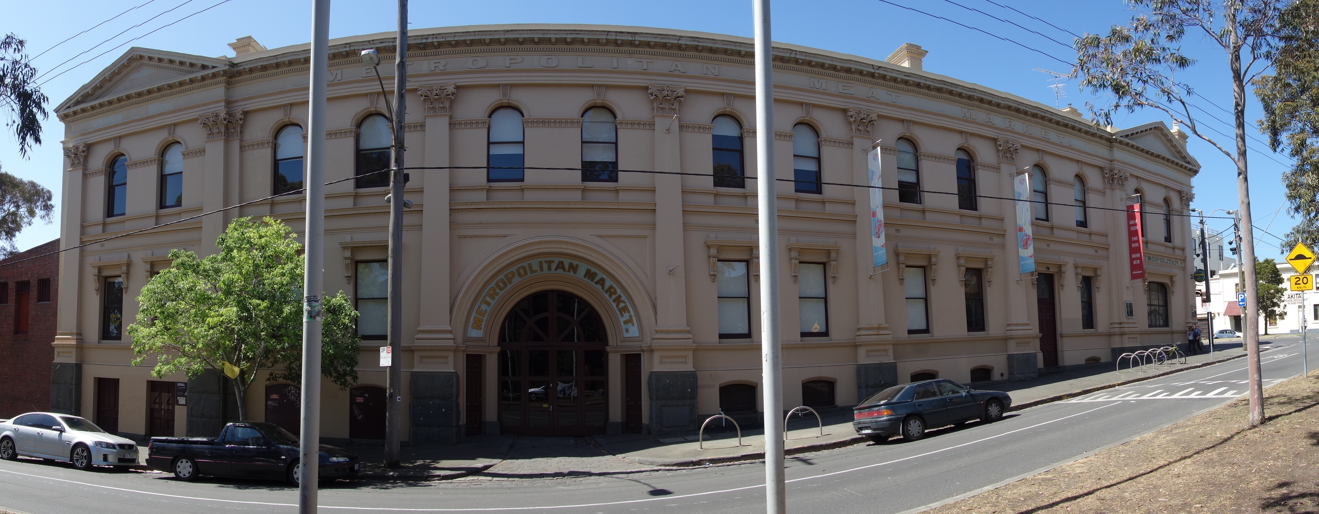 Metropolitan Meat Market in North Melbourne